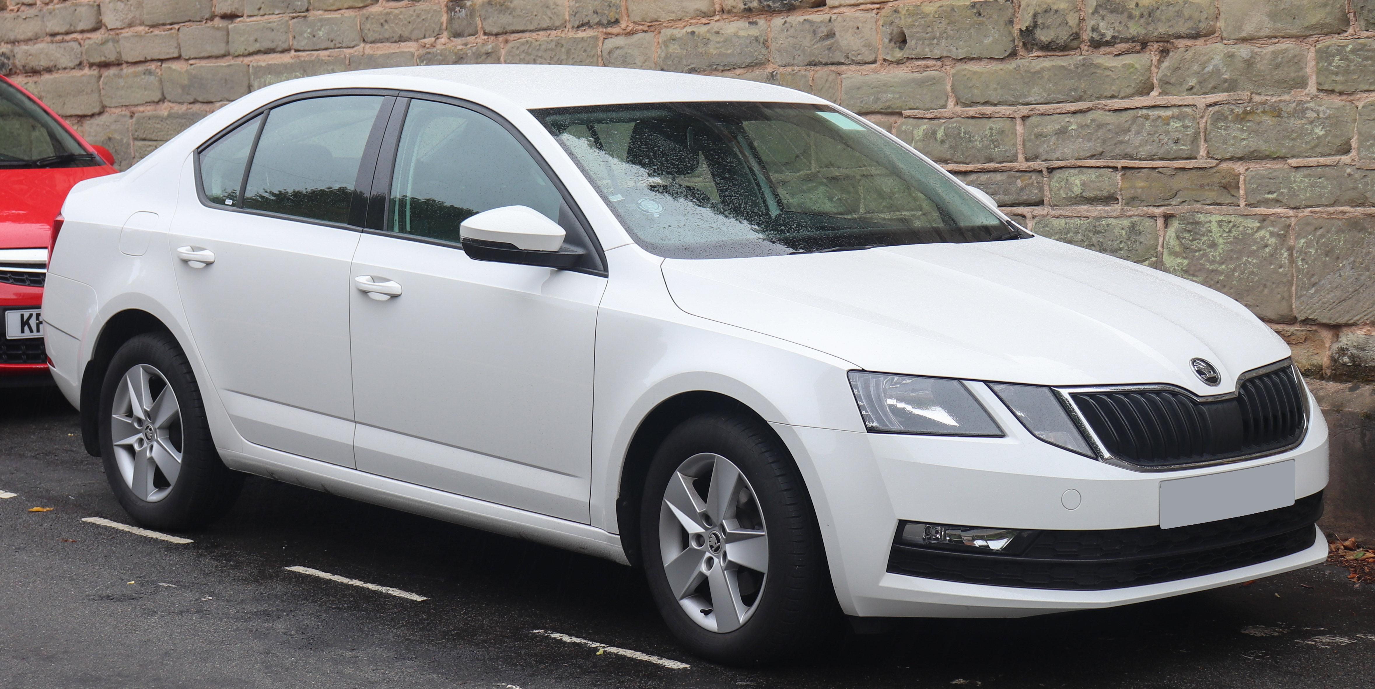 2018 Skoda Octavia SE TDi S-A 1.6 Front Taken in Warwick